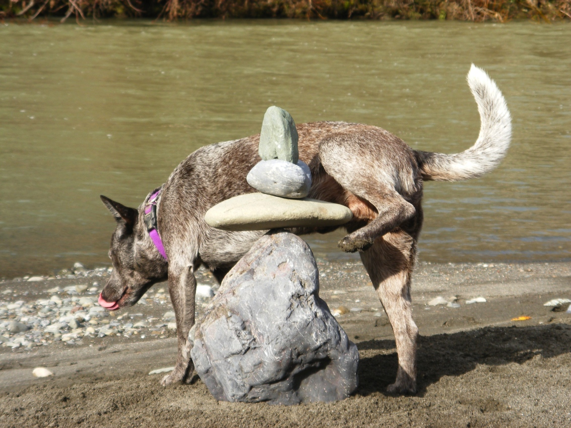 Soon as we made it, Buddy marked it as his!